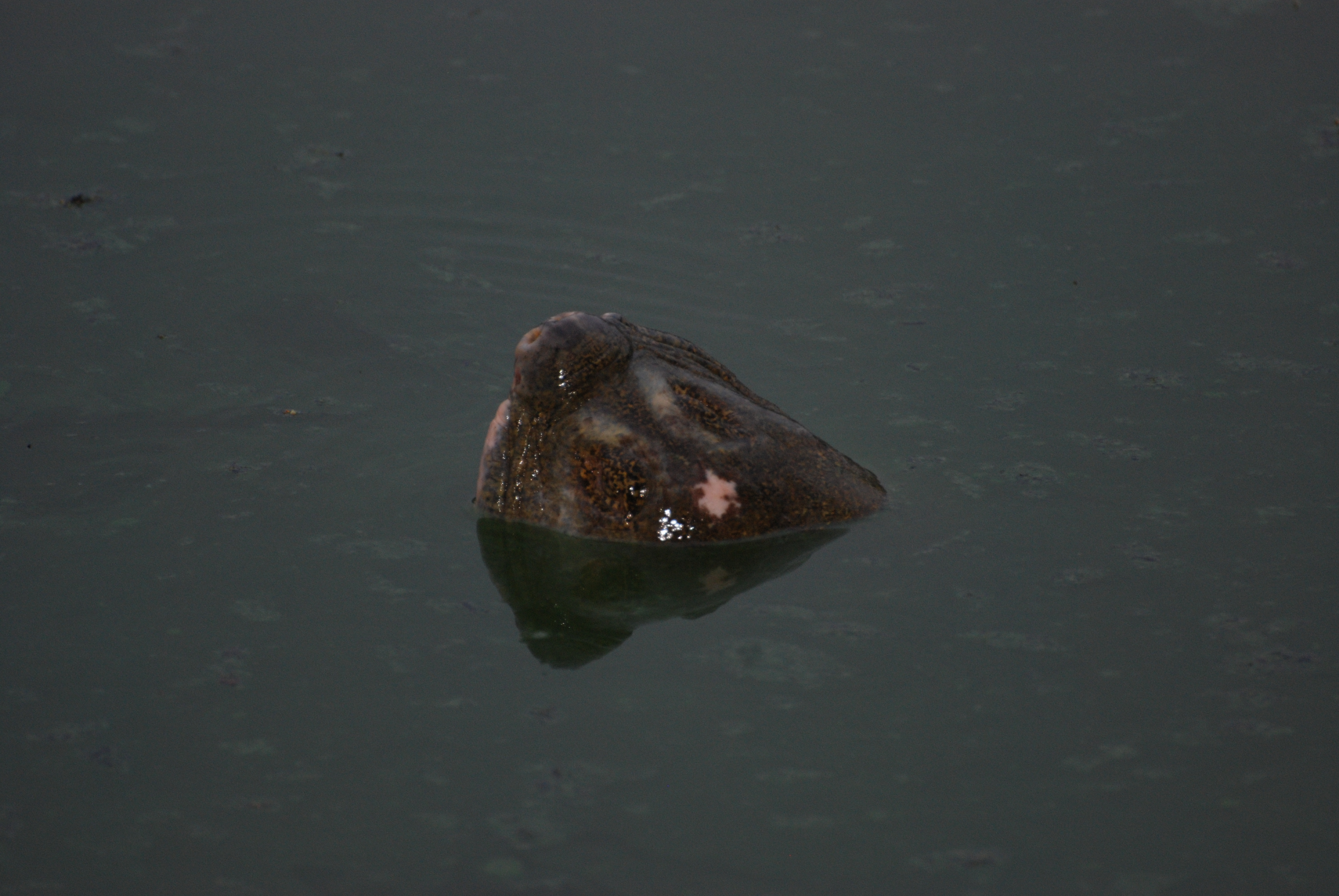 Swinhoe’s Soft-shelled Turtle (Rafetus swinhoei, Rafetus leloii), Hoan Kiem Lake Turtle, Weichschildkröte, Hanoi, Vietnam